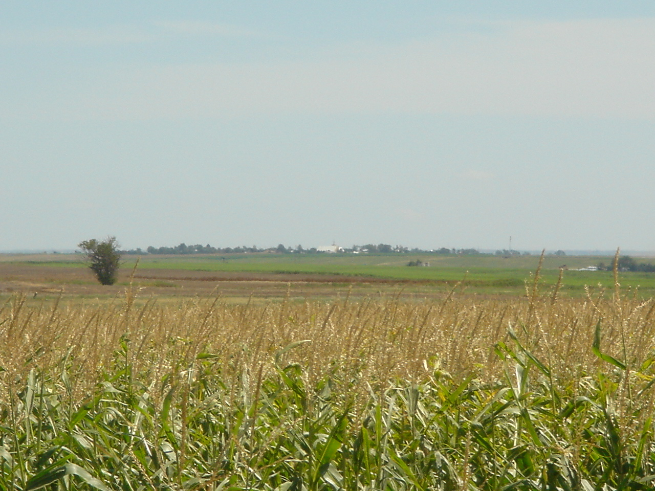 A view of the countryside, and the town of Antonino, in Ellis County, Kansas, from the northwest